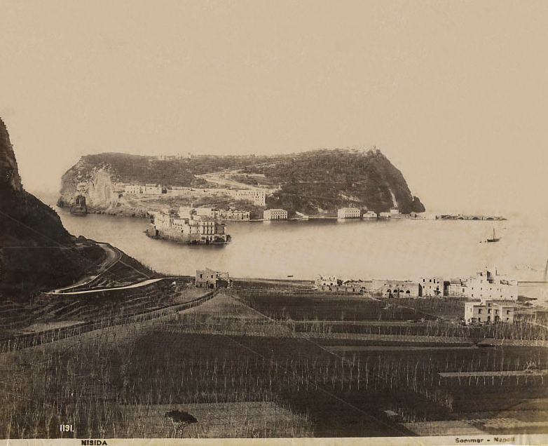 Giorgio Sommer (1834-1914), "Isle of Nisida". Catalogue #: 1191.